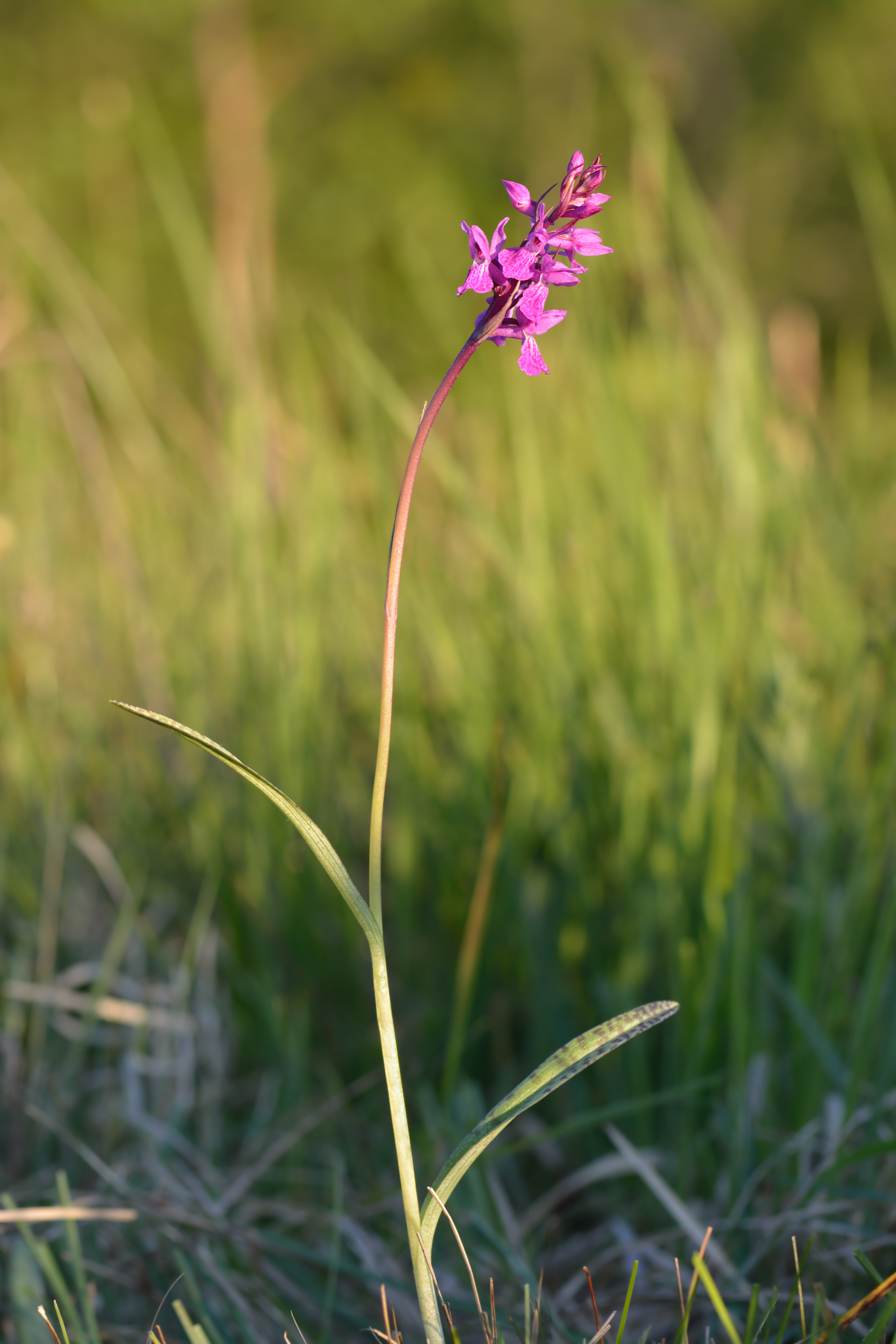 Russow's Marsh Orchid or Narrow-leaved Marsh-orchid (Dactylorhiza russowii). Niitvälja Bog, Northwestern Estonia.